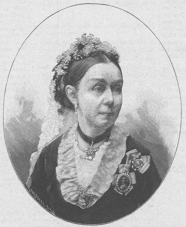 Swedish countess and courtier Malvina de la Gardie (1824-1901)